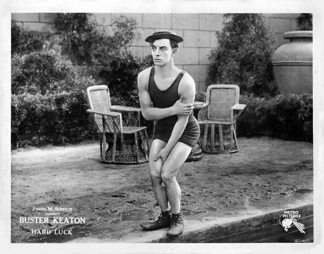 Buster Keaton in Hard Luck (1921).